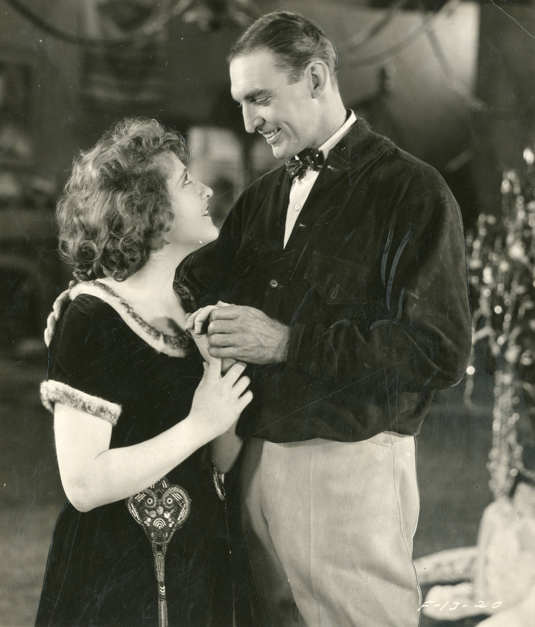 Still from the American western film Hell's Hole (1923). Subjects: motion pictures, actresses, actors